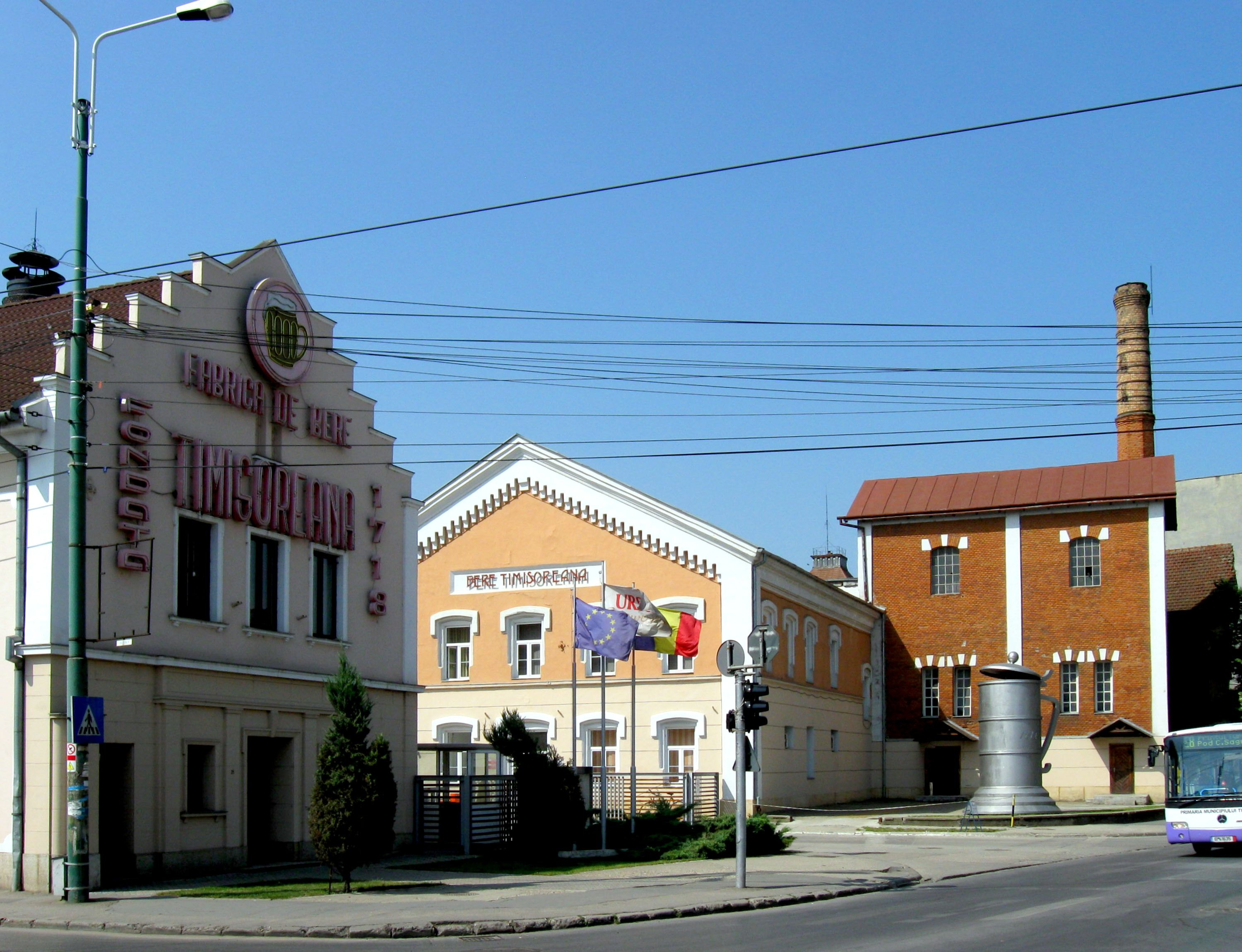 Timisoreana brewery, Timișoara, built 1718